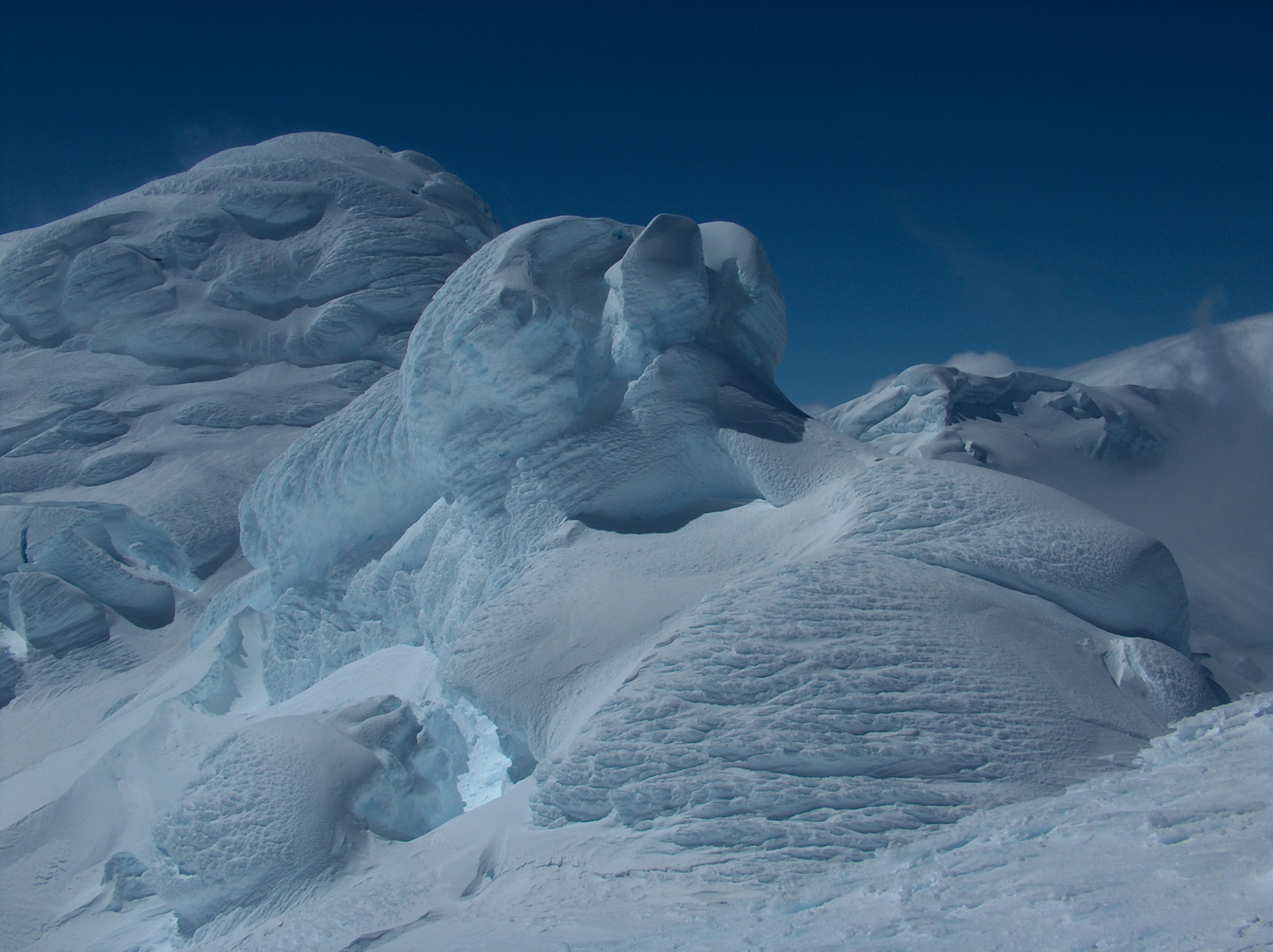 'The Sphinx,' a rock-cored ice formation at Catalunyan Saddle|Catalunyan Saddle in Tangra Mountains on Livingston Island in Antarctica